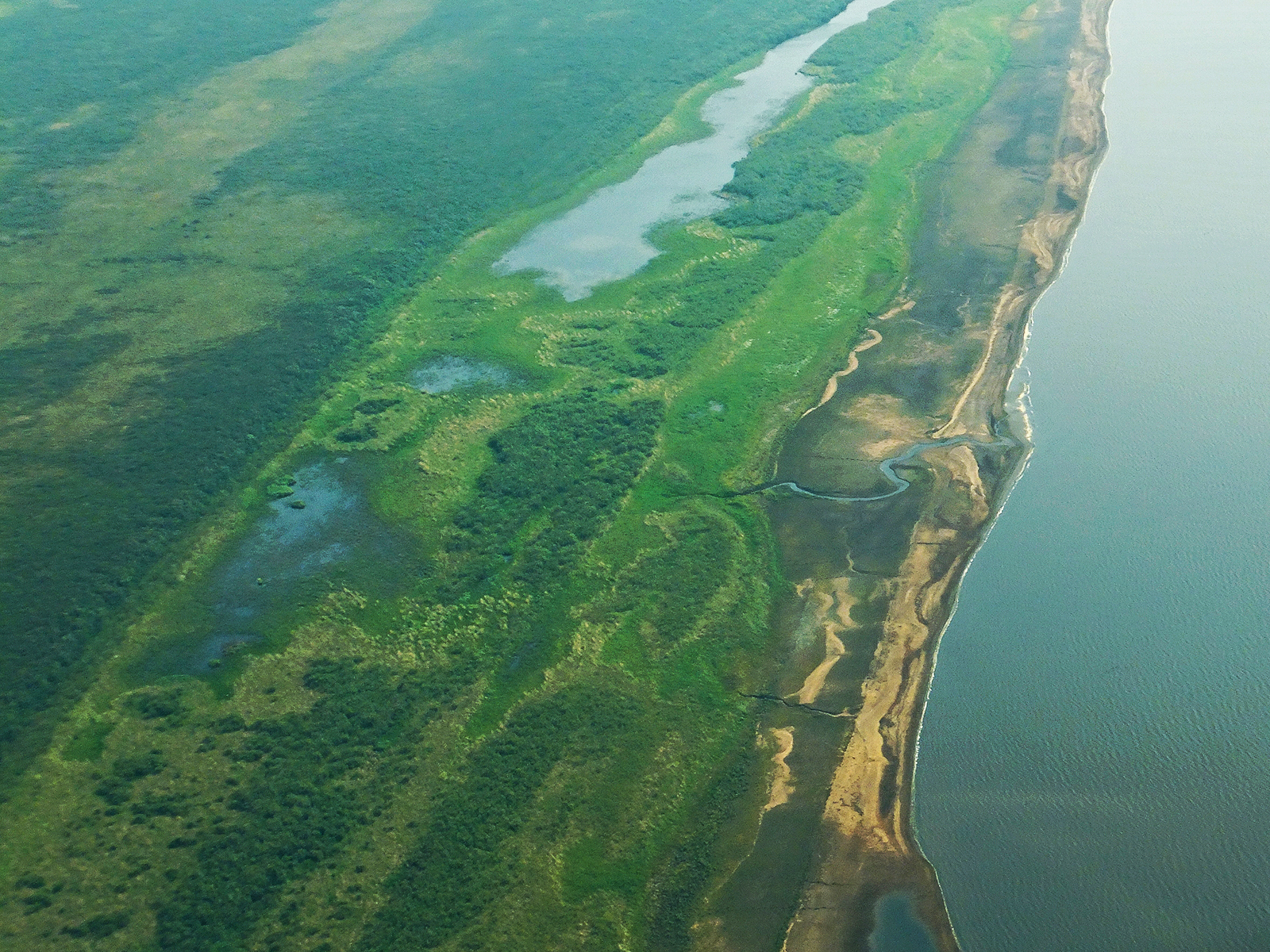 Shoreline of large lake in Old Crow Flats in Vuntut National Park, Yukon. Air hazy due to wildfires in Alaska.